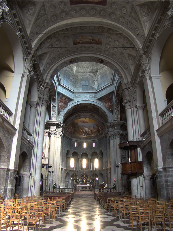 San Fedele, Como, Lombardy, Italy. Nave.